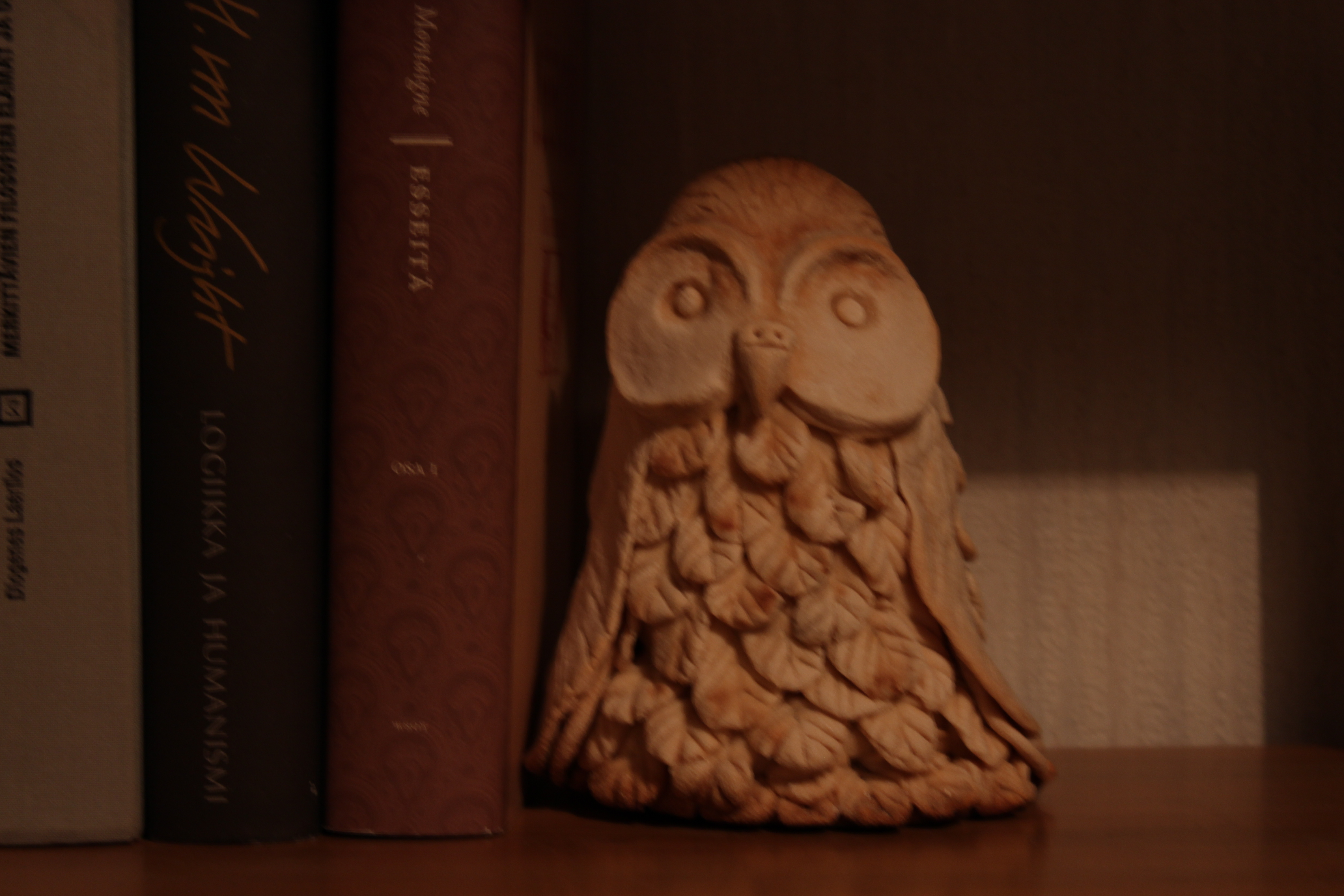 Taikataikina